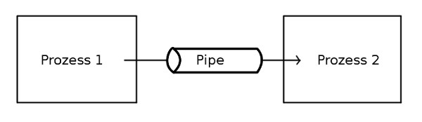 Piping